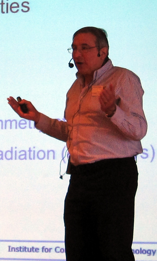 Crop of Carlos Frenk talking about experiments currently under way to detect cold dark matter at the Jubileum Conference of the Norwegian Astronomy Society in Tromsø, Norway, on March 2nd 2013. Levels adjusted.